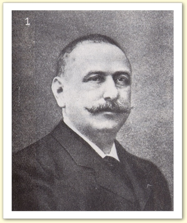 Pierre_Giffard,_Editor_of_Le_Velo,_circa_1900.jpgImage is public domain as it is over 100 years old